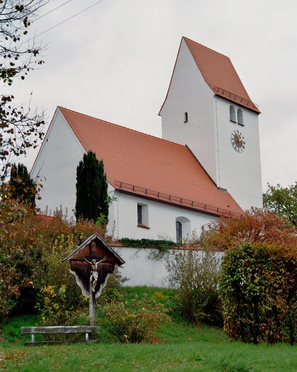 Roman Catholic St John the Baptist (St. Johannes der Täufer) Church in Schönesberg, Ehekirchen, District Neuburg-Schrobenhausen, Bavaria, Germany.